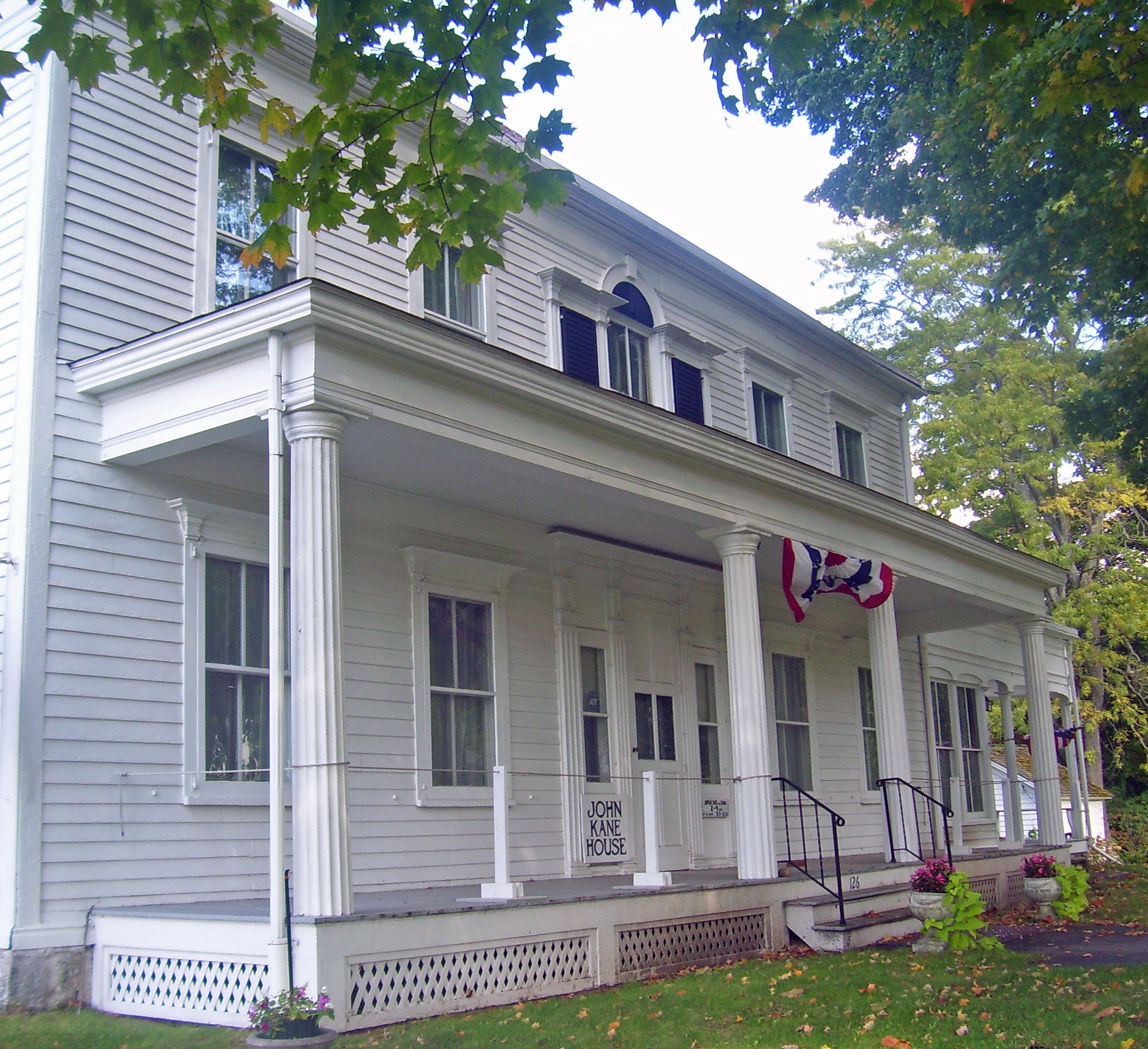 View of southern central Dutchess County landscape from NY 216 near Green Haven